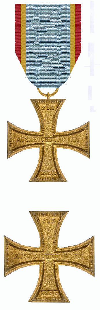 Military Coss of Merit Mecklenburg Schwerin Ist and IInd. Class for comattants